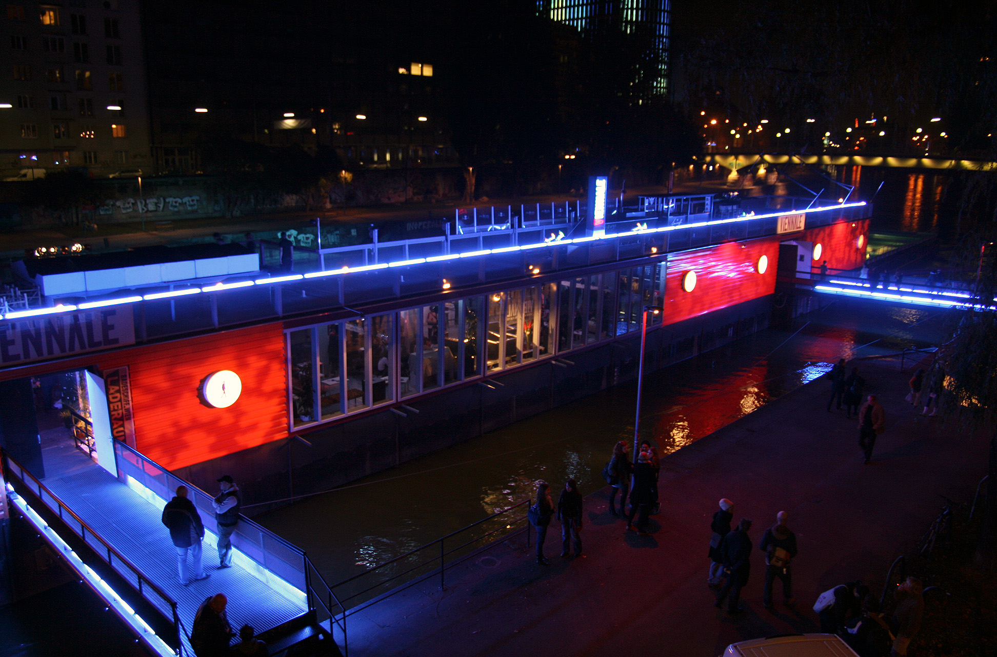 The Badeschiff on the Donaukanal, festival center of the Vienna International Film Festival 2009.